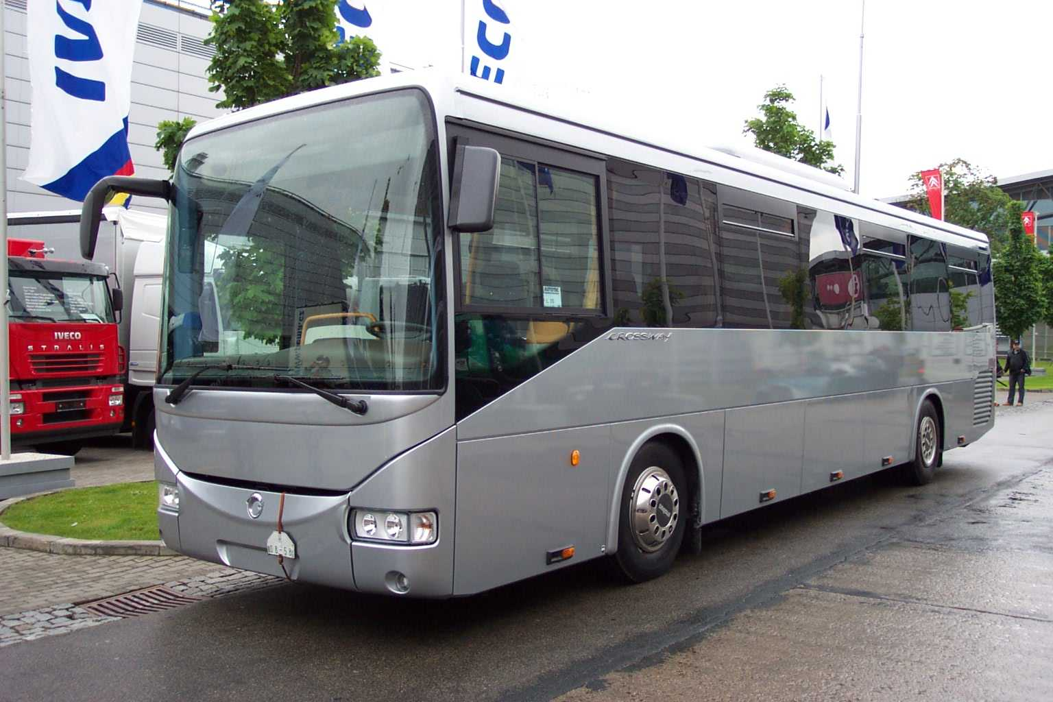 Bus type Irisbus Crossway at Brno Autotec fair - Autobus typu Irisbus Crossway na veletrhu Autotec v Brně